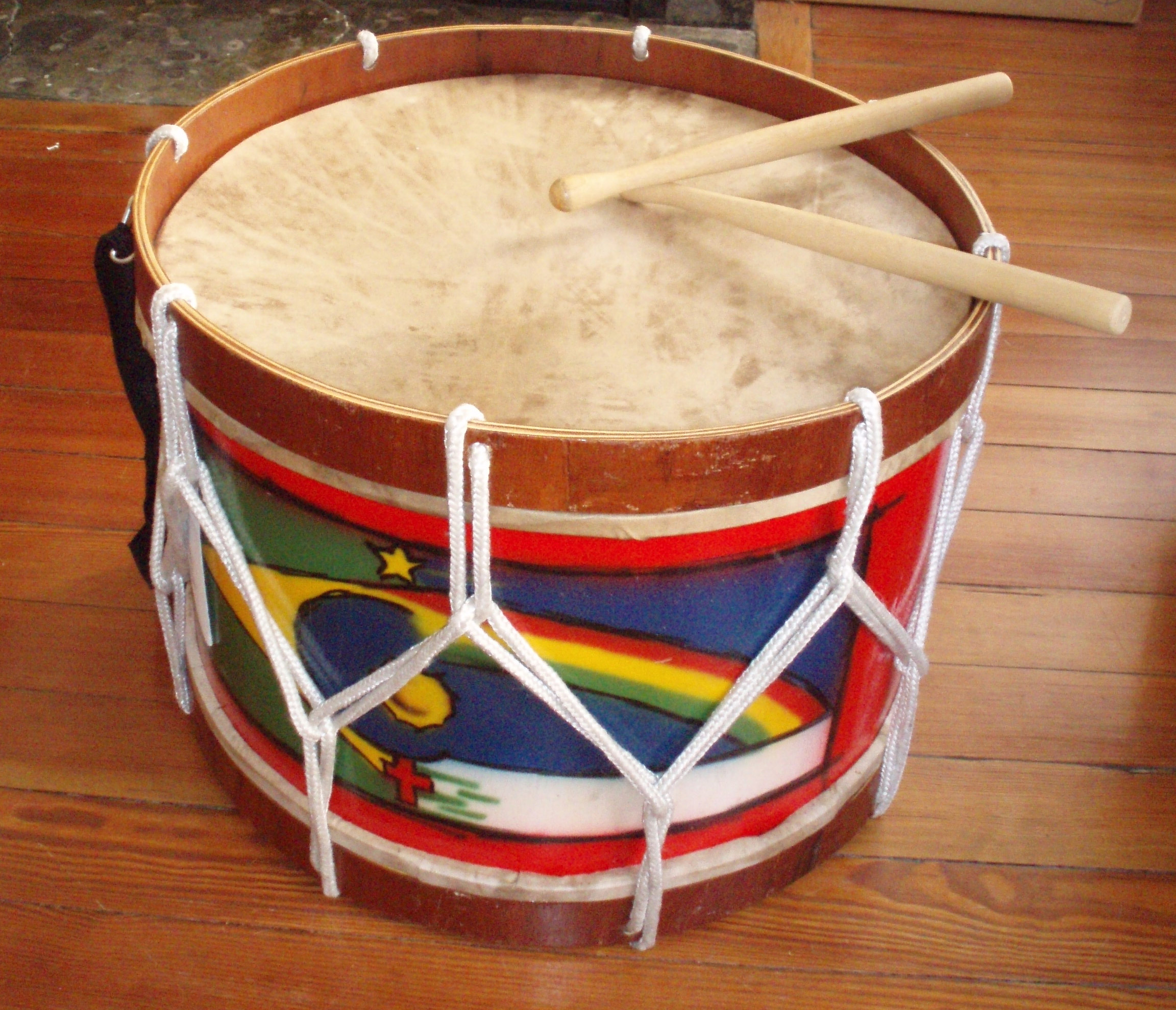 Alfaia (Maracatu drum)